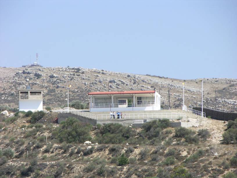 the Shouting Hill of Syria, facing Majdal Shams